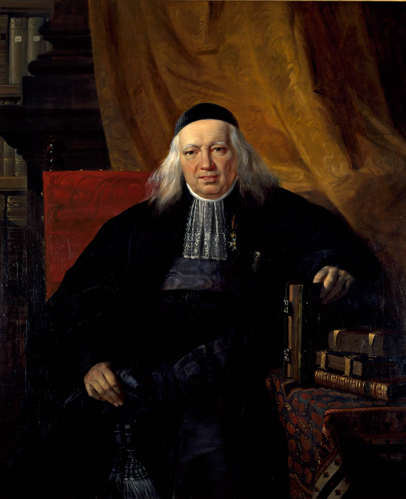 Portrait of Charles Sulpice Flament by J.J. Eeckhout (1835)